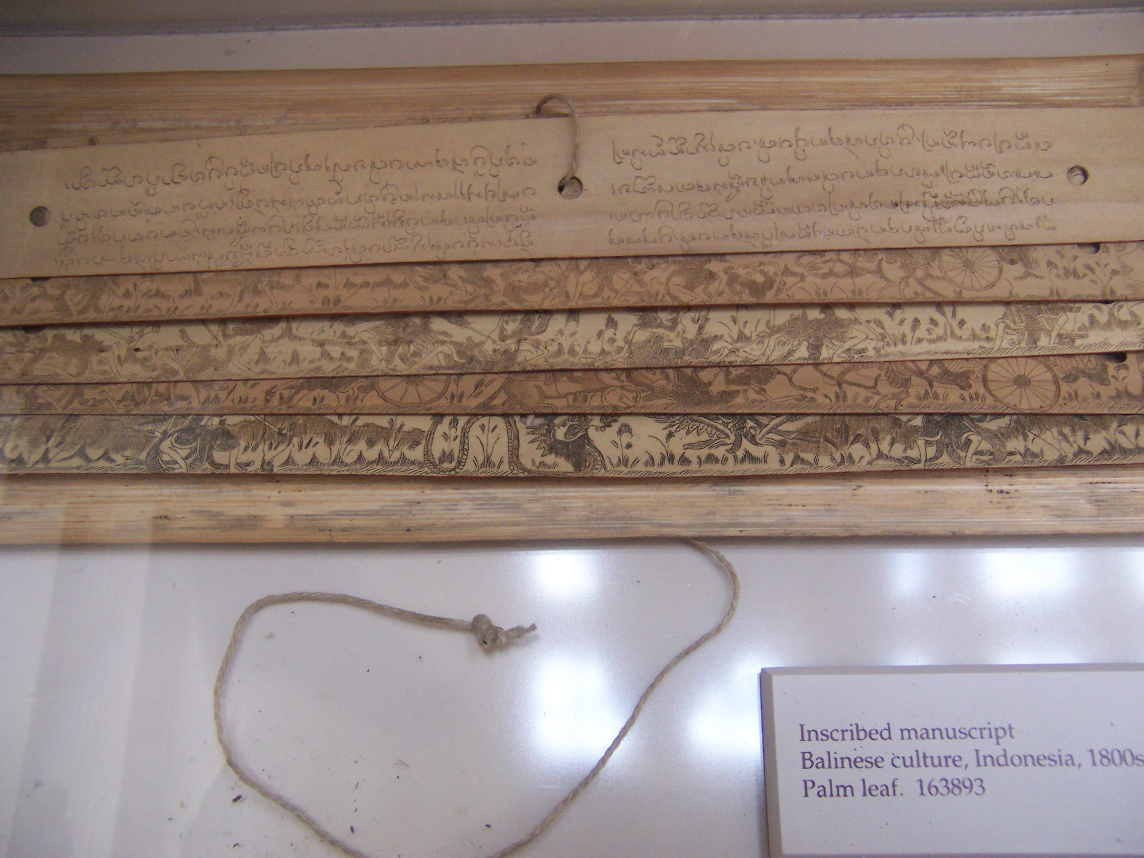 Balinese Palm-leaf writing, en:1800s. This form of writing existed all over the Malay archipelago, on leaves and on bamboo. Artifact #163893 can be seen at the Field Museum, Chicago Picture taken by self.